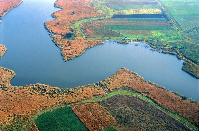 Shabla lakes on the Bulgarian Black Sea coast